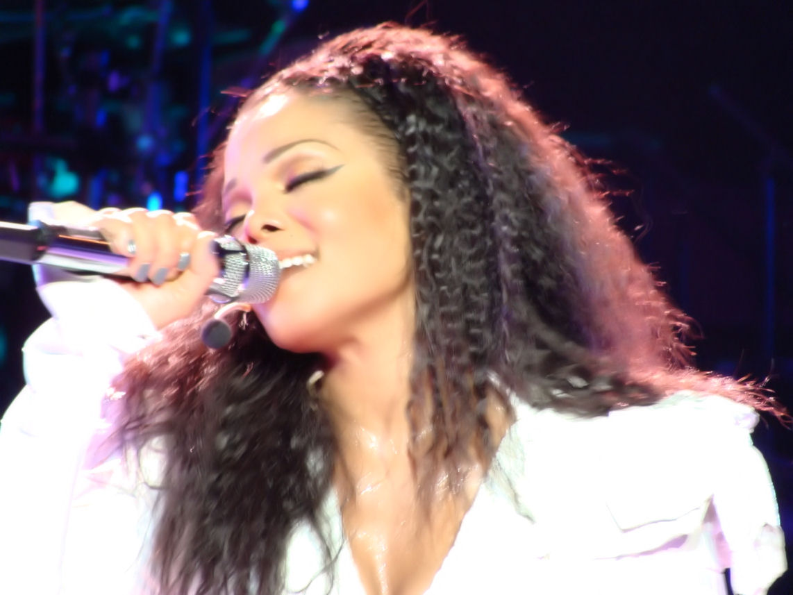 Janet Jackson performing at Royal Albert Hall